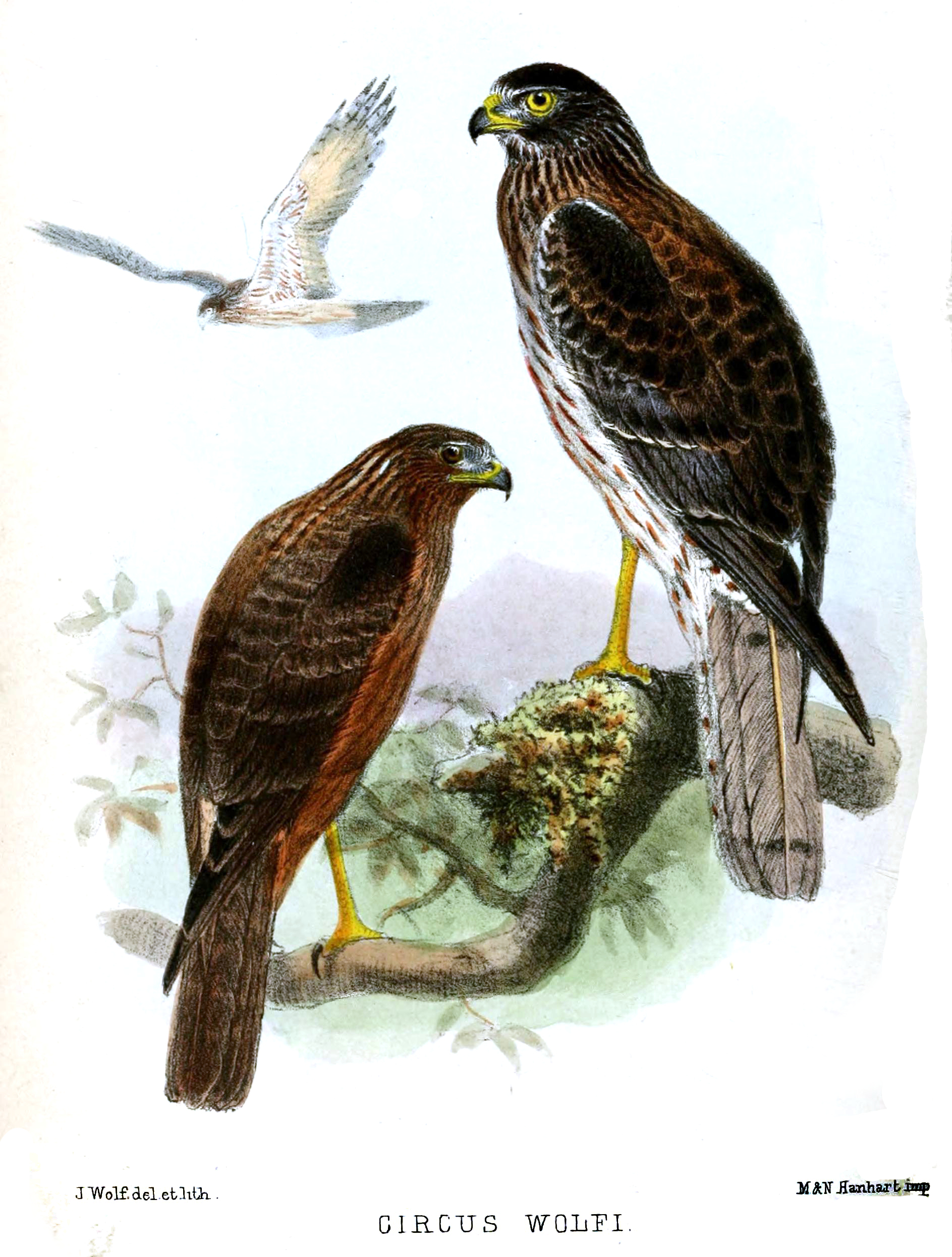 Swamp Harrier Circus approximans Peale, 1848 (syn. Circus wolfi), adult males (right, top left) and immature male (bottom left). Named here by J. H. Gurney after artist Joseph Wolf